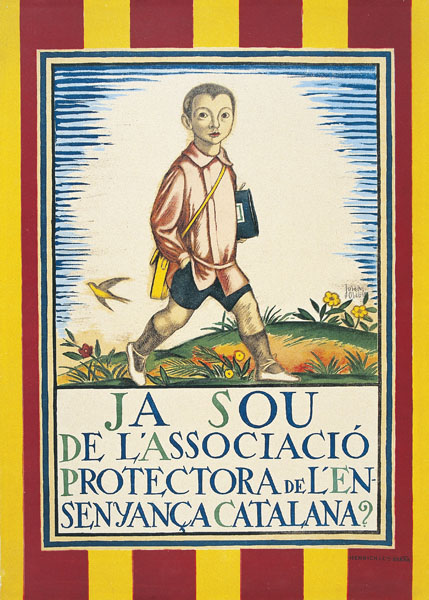 Are you already a member of the Associació Protectora de l'Ensenyança Catalana? 1921